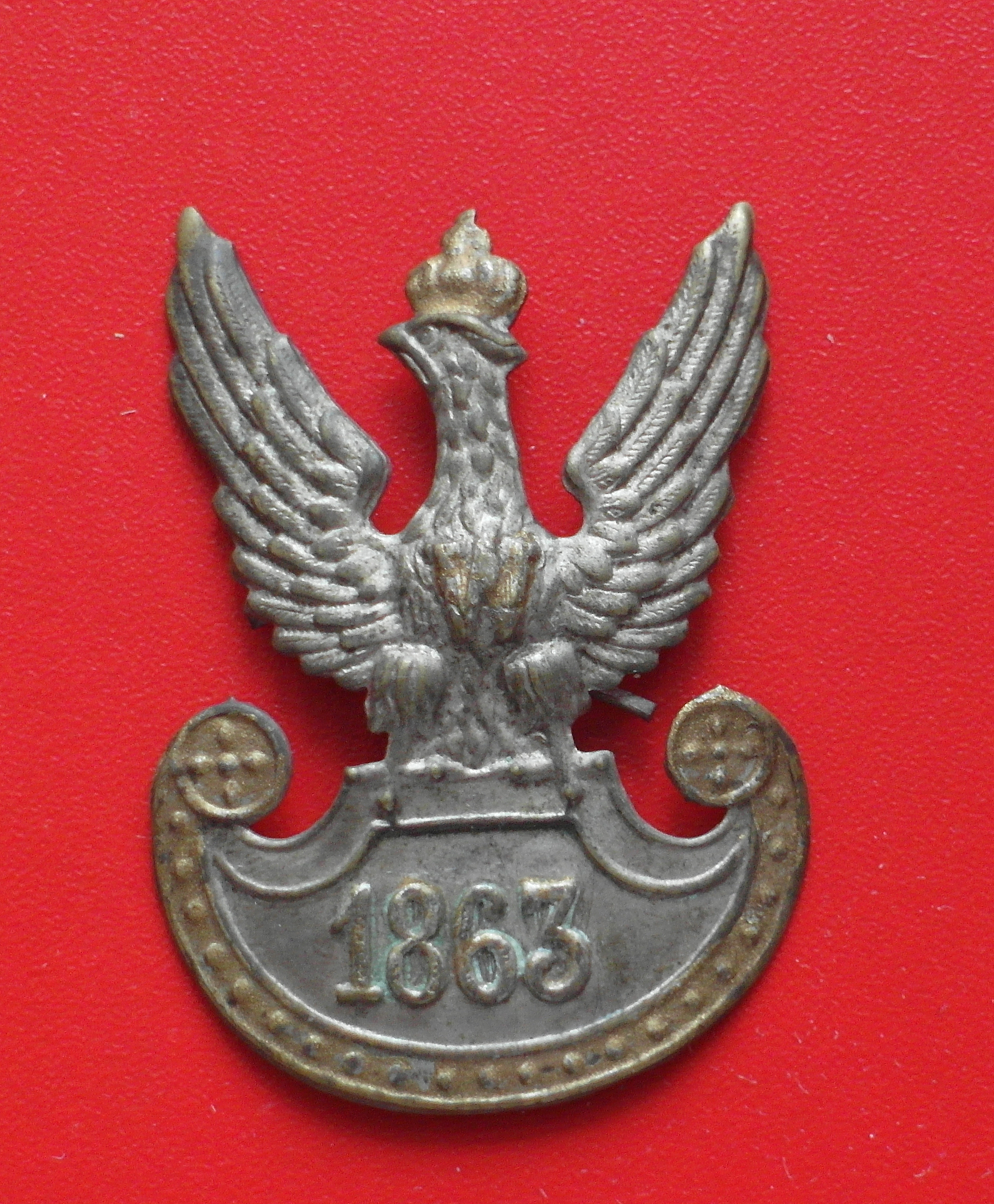 Eagle of the veteran of the January Uprising 1863